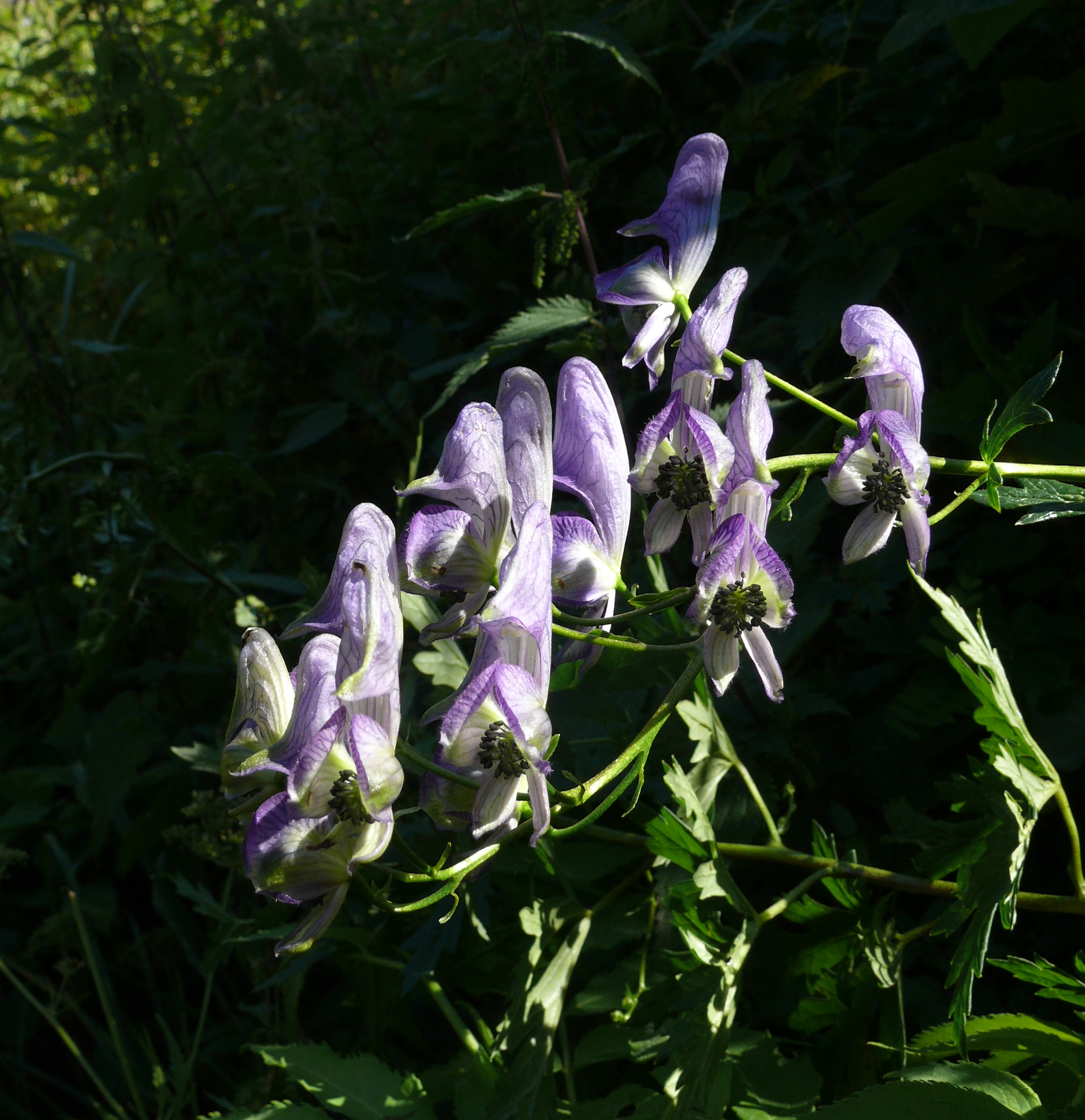 Aconitum variegatum, Härtsfeld, Germany